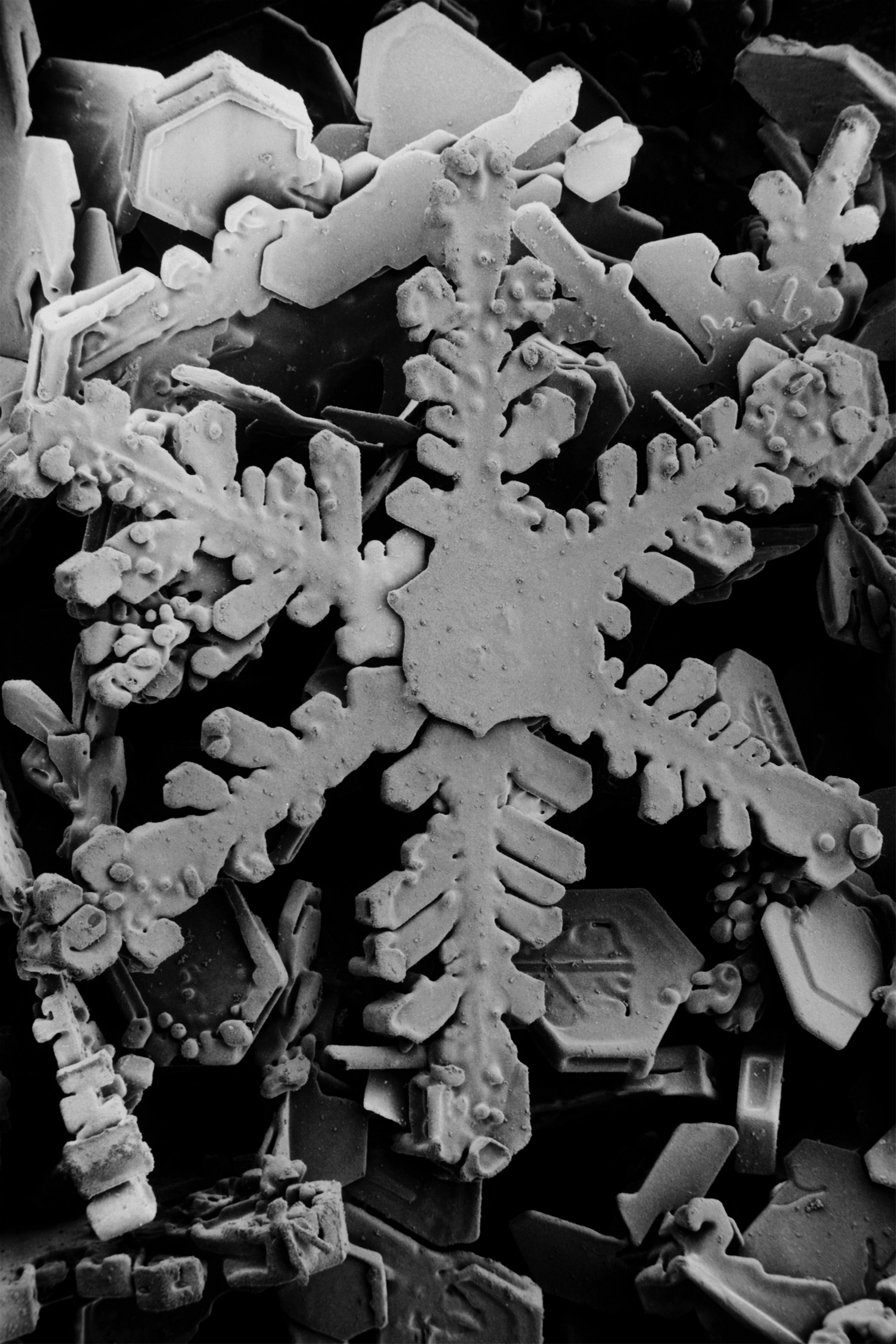 Ordinary hexagonal dendrite snowflake, highly magnified by a low-temperature scanning electron microscope.